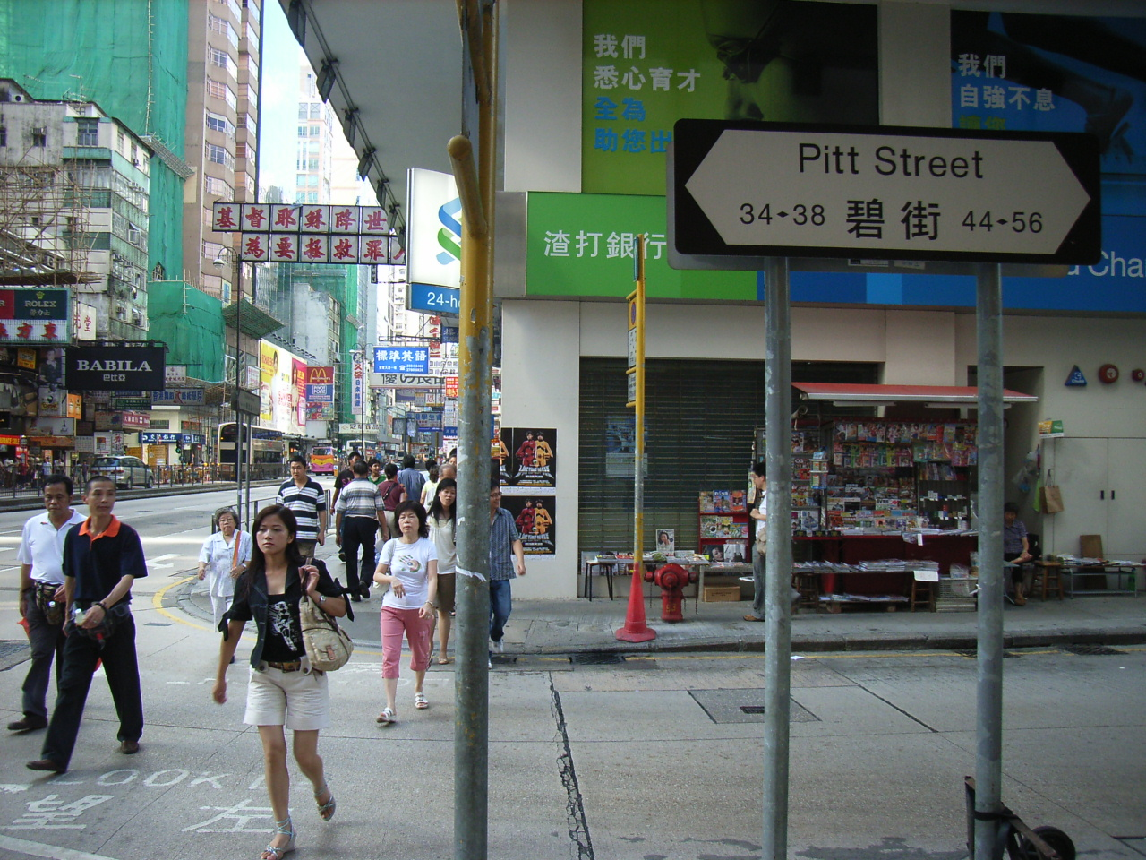 Pitt Street, Kln Photo by TonySKTO